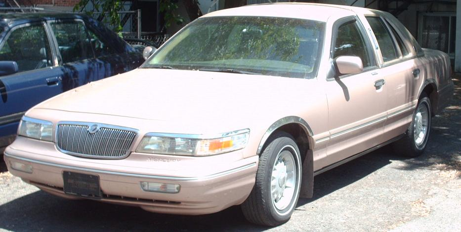 1995-1997 Mercury Grand Marquis photographed in Montreal, Quebec, Canada.